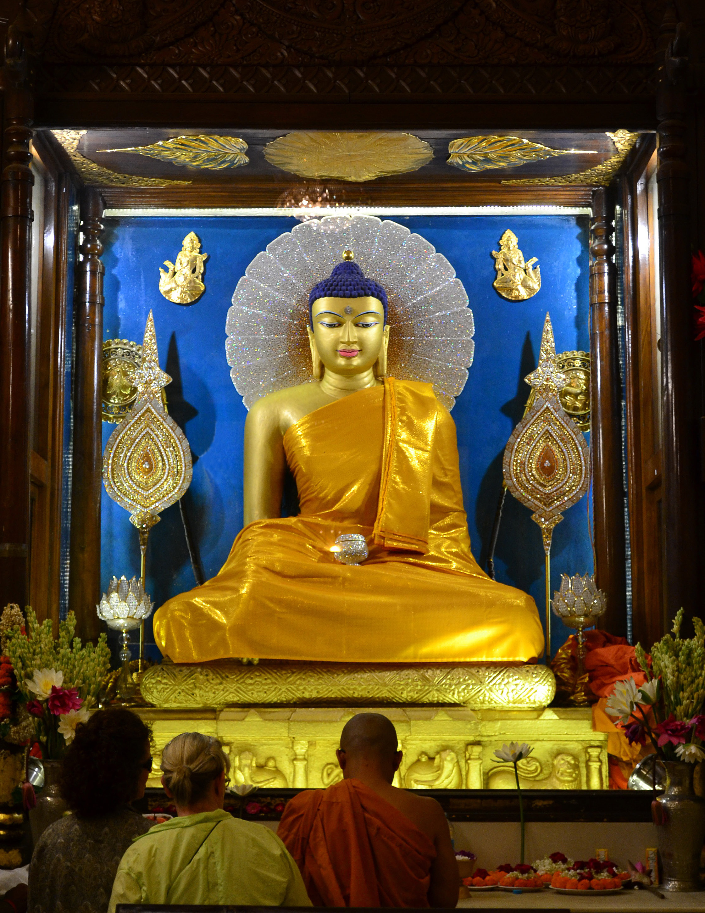 Bodhgaya. Buddha image in the Mahabodhi temple.